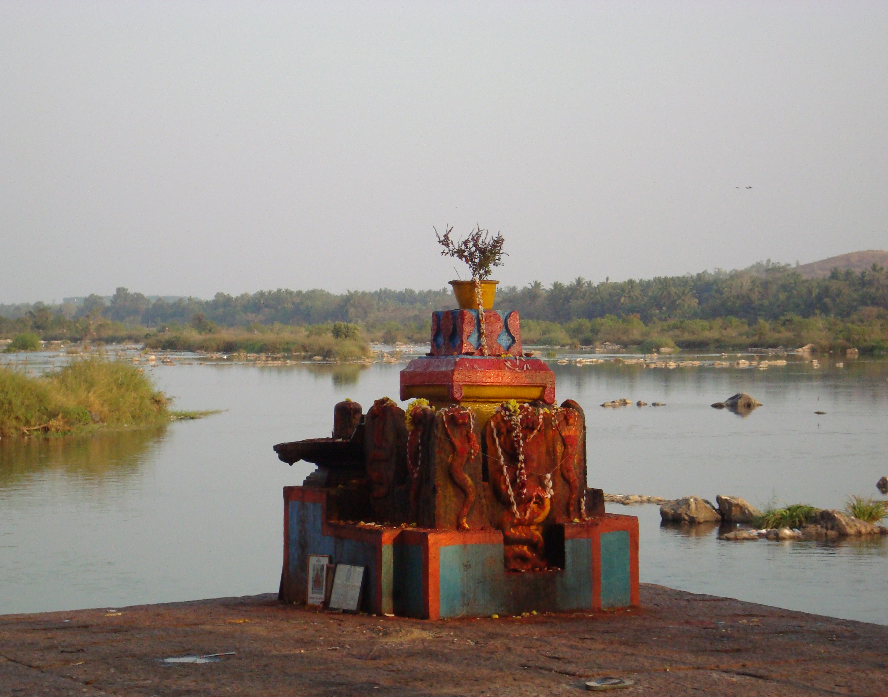 River Kaveri splits into two streams on entering Srirangapatna. Confluence of these two streams is Sangama.